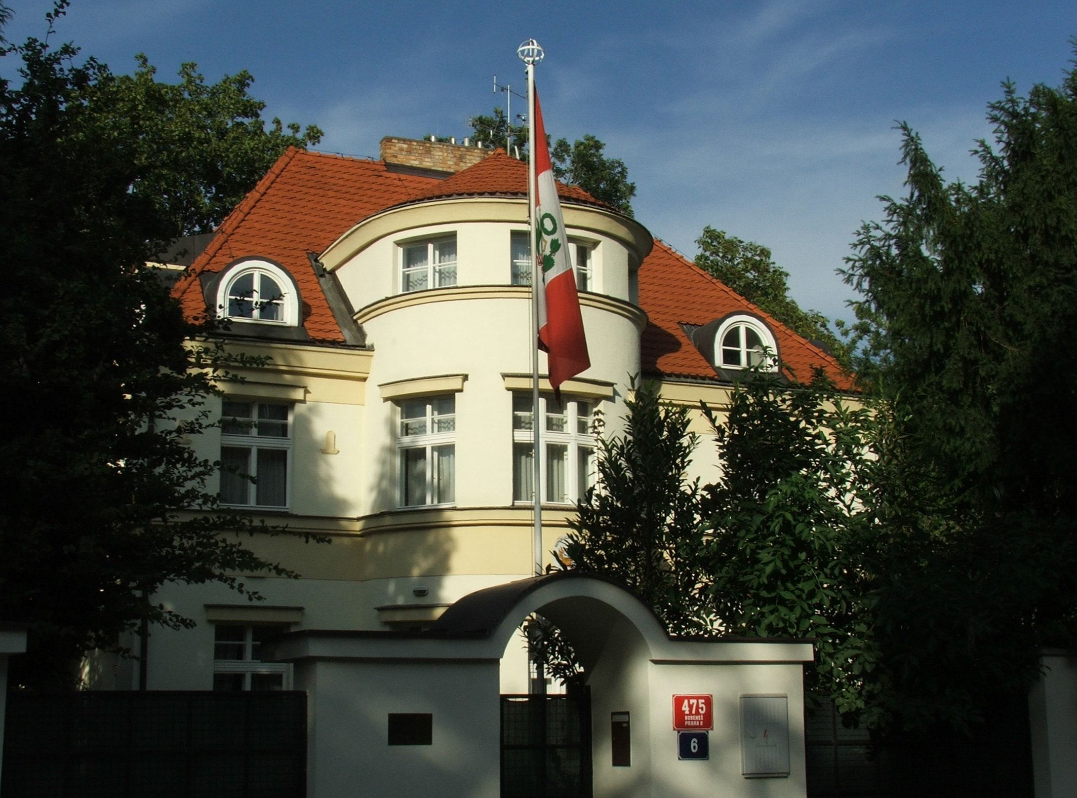 Embassy of Peru- rezidence in Prague - Bubeneč, Czechia